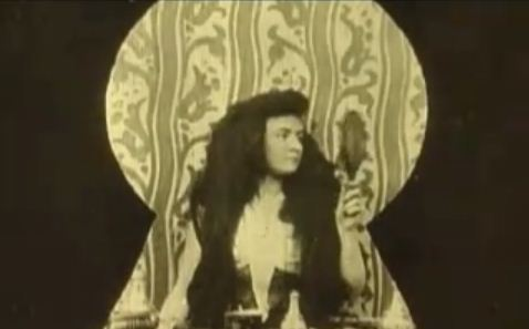 US Silent film Peeping Tom (1897).